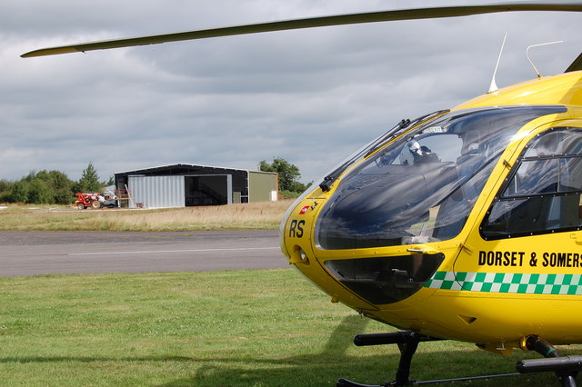 Dorset And Somerset Air Ambulance New Air Ambulance Hangar north side of runway with Helicopter sitting on the south side of the runway